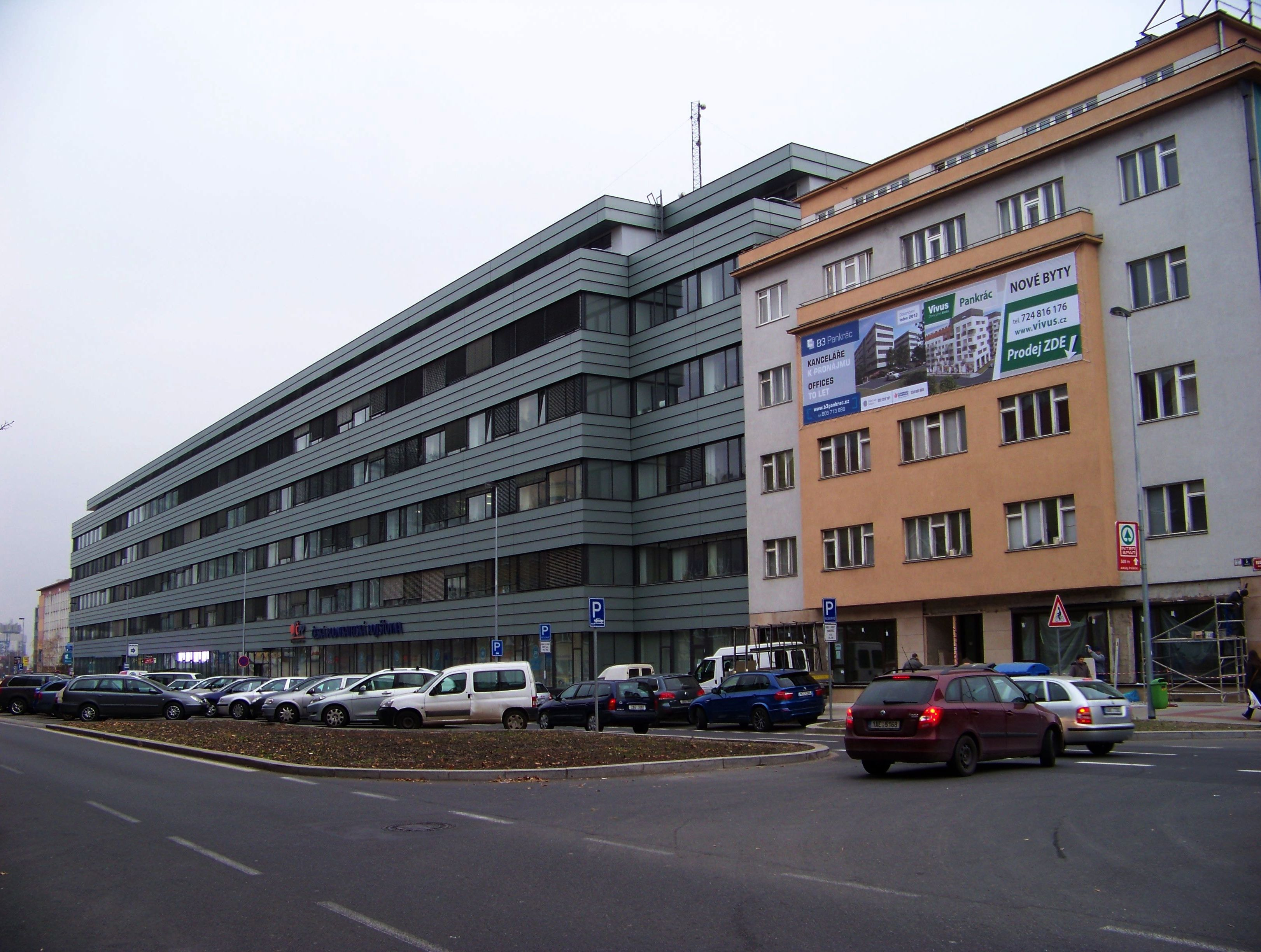 Prague-Michle, the Czech Republic. Budějovická street.